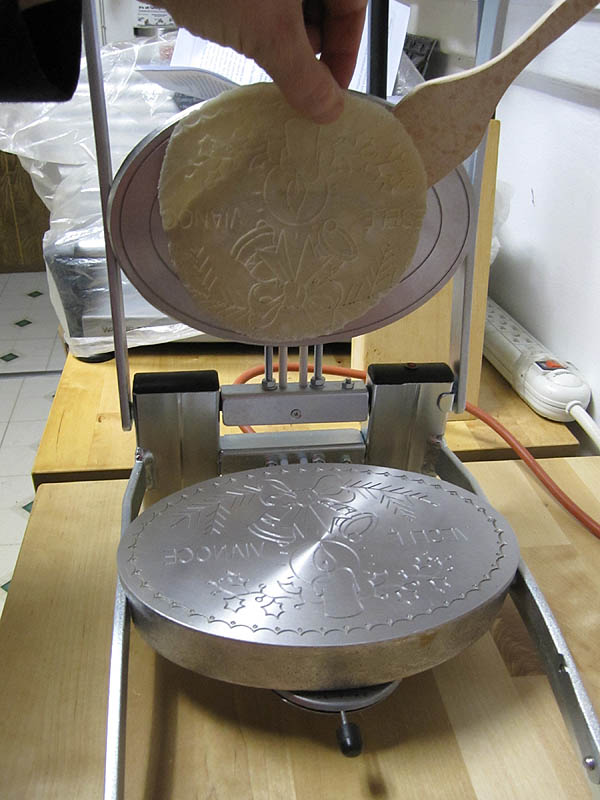 This is how you make Christmas wafers